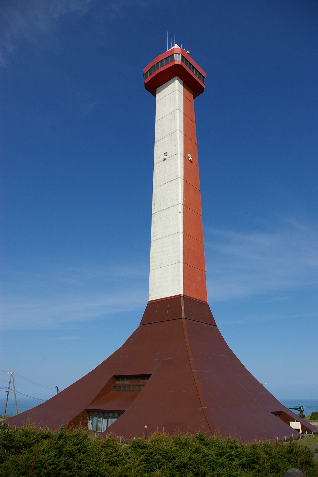 Wakkanai city Exploitation 100years commemoration tower.